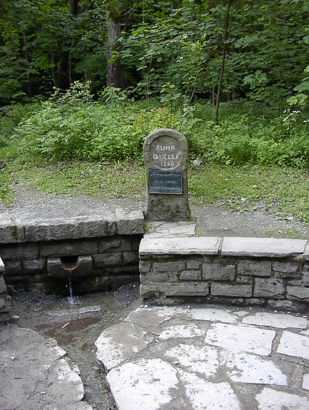 Source of Ruhr, a river in Germany